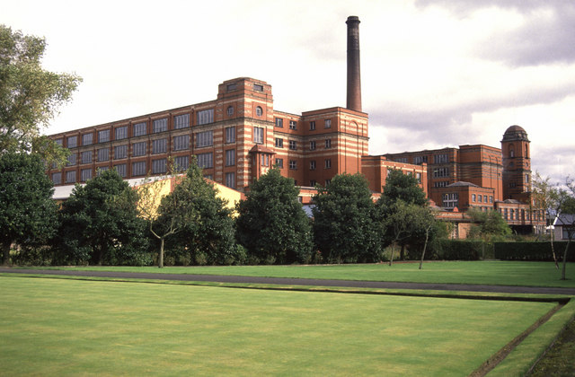 Leigh Spinners, Leigh Tufted carpet manufacturers. Two mills with a common boiler house and chimney. No. 2 closest to the camers houses a disused cross compound mill engine - the biggest of its type to survive. Is listed and attempts to remove it were foiled with the support of the International Stationary Steam Engine Society.